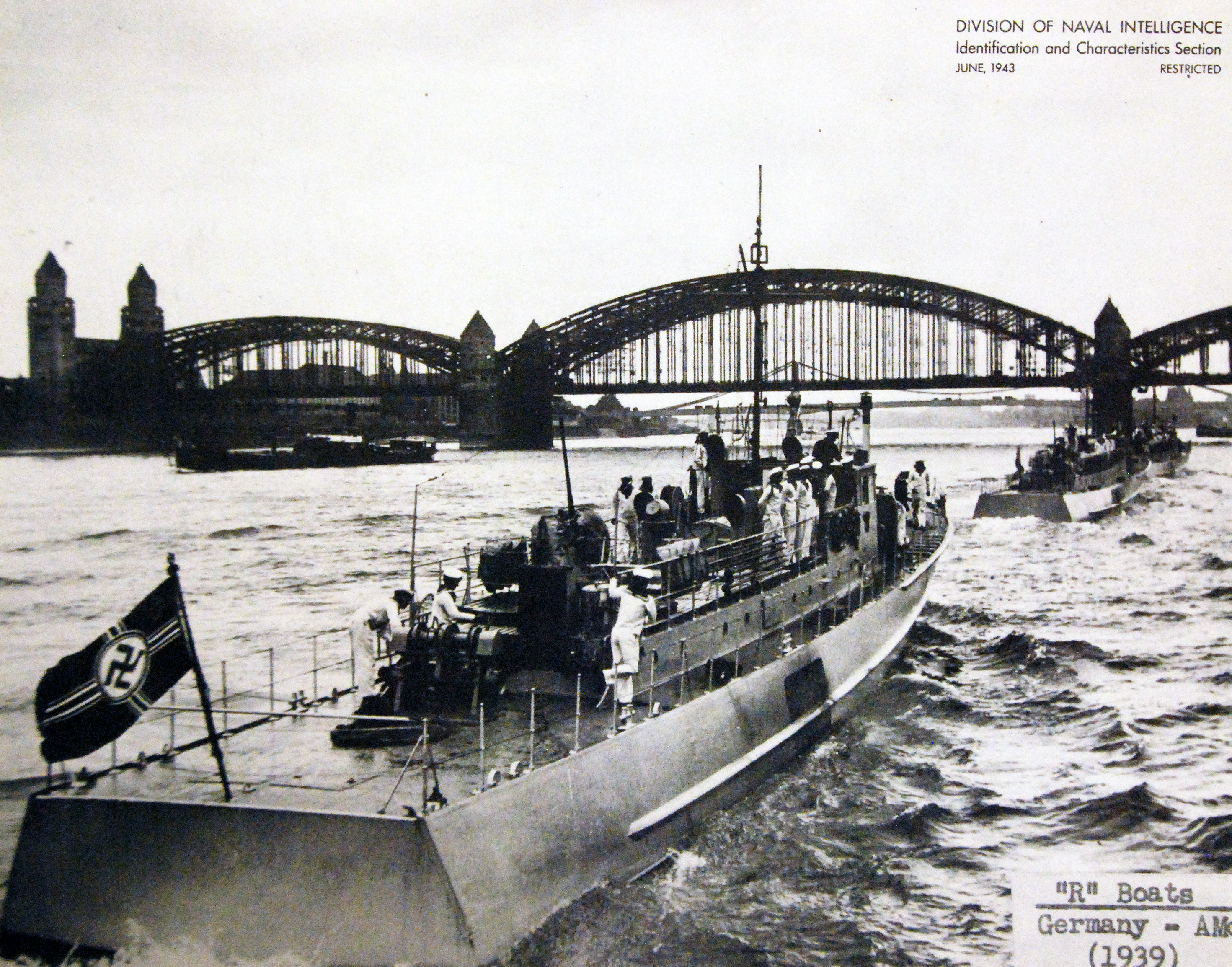 Lot-2275-3: German Warships, WWII. German R boats (mineweepers), 1939. Halftone image from Division of Naval Intelligence, Identification and Characteristics Section, June 1943. Courtesy of the Library of Congress. (2016/05/06).